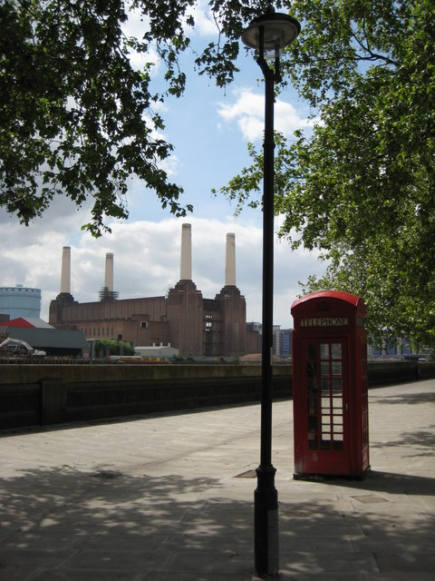 Battersea Power Station The former Battersea Station and K2 telephone box.